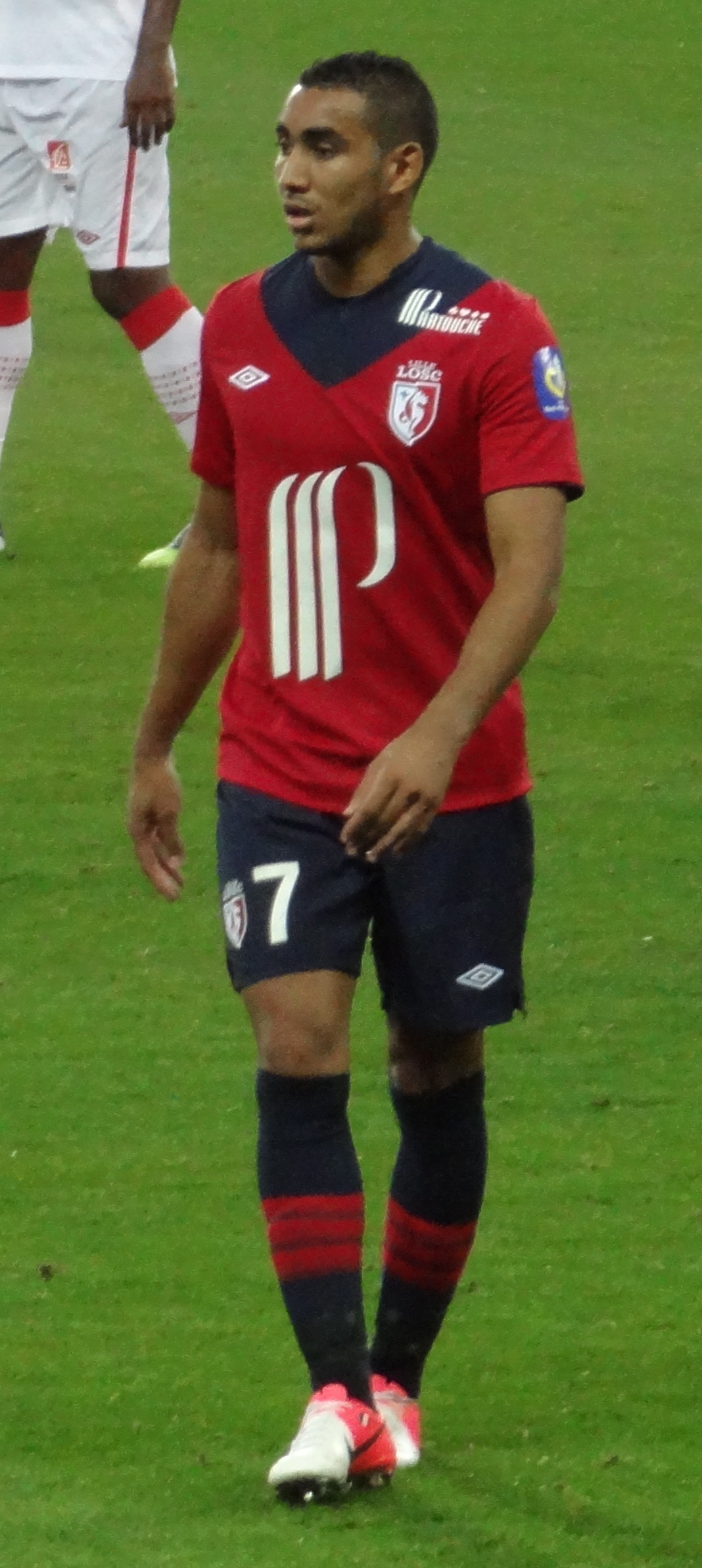 Dimitri Payet (Lille LOSC)